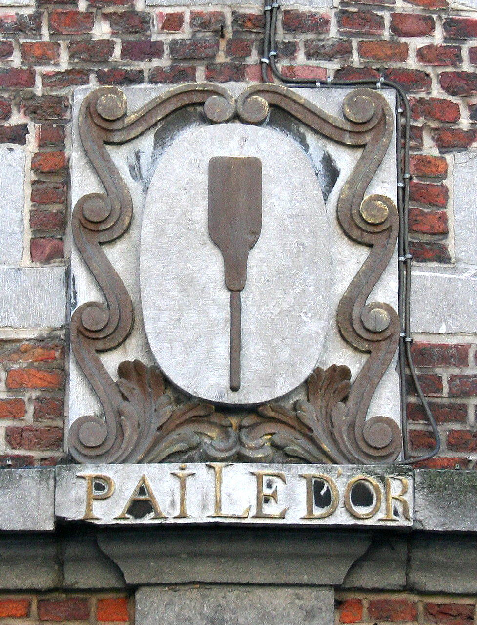 Mons (Belgium), rue d’Havré, 72 – Stone sign at the « Paile d’Or » showing a baker shovel .